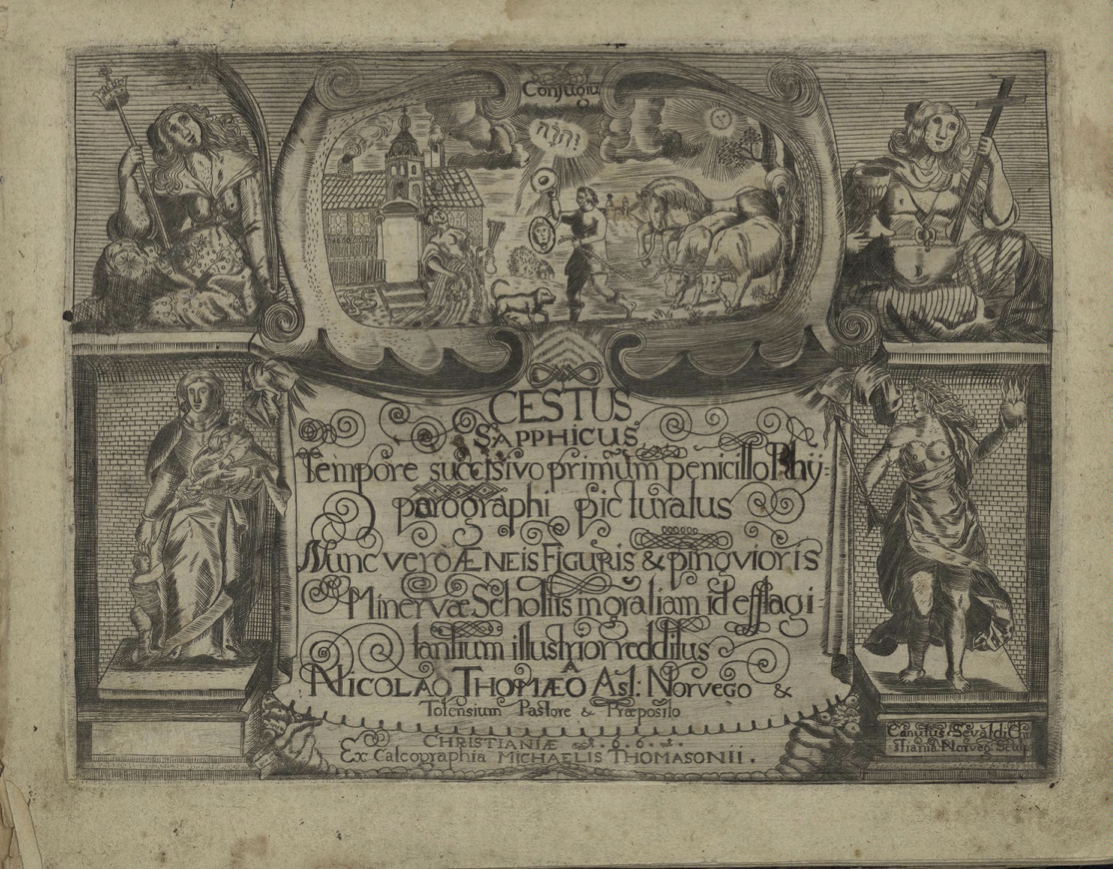 Tittelblad fra: Cestus Sapphicus, Tempore succisivo primum penicillo Rhyparographi picturatus, Nunc vero Aeneis Figuris & pingvioris Minervae Scholiis ingratiam id efflagitantium illustrior redditus, forfattet av Niels Thomessøn, illustrert av Knut Sevaldsen Bang og Didrik Muus, Christianiae : Ex Calcographia Michaelis Thomasonii, 1661